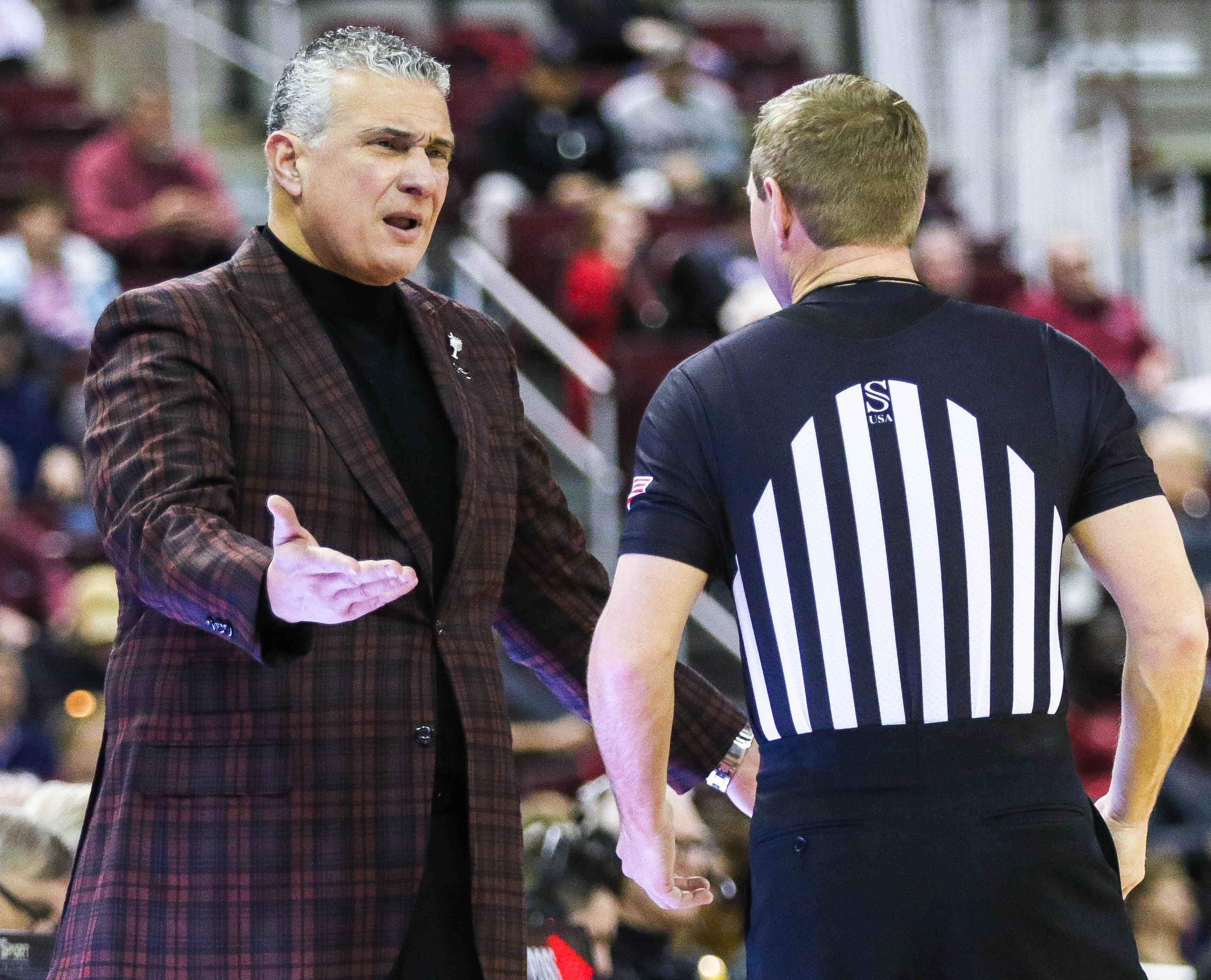 Frank Martin Photo by Katie Dugan